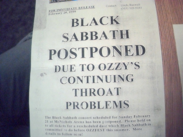 A sign saying that the February 21 show has been postponed